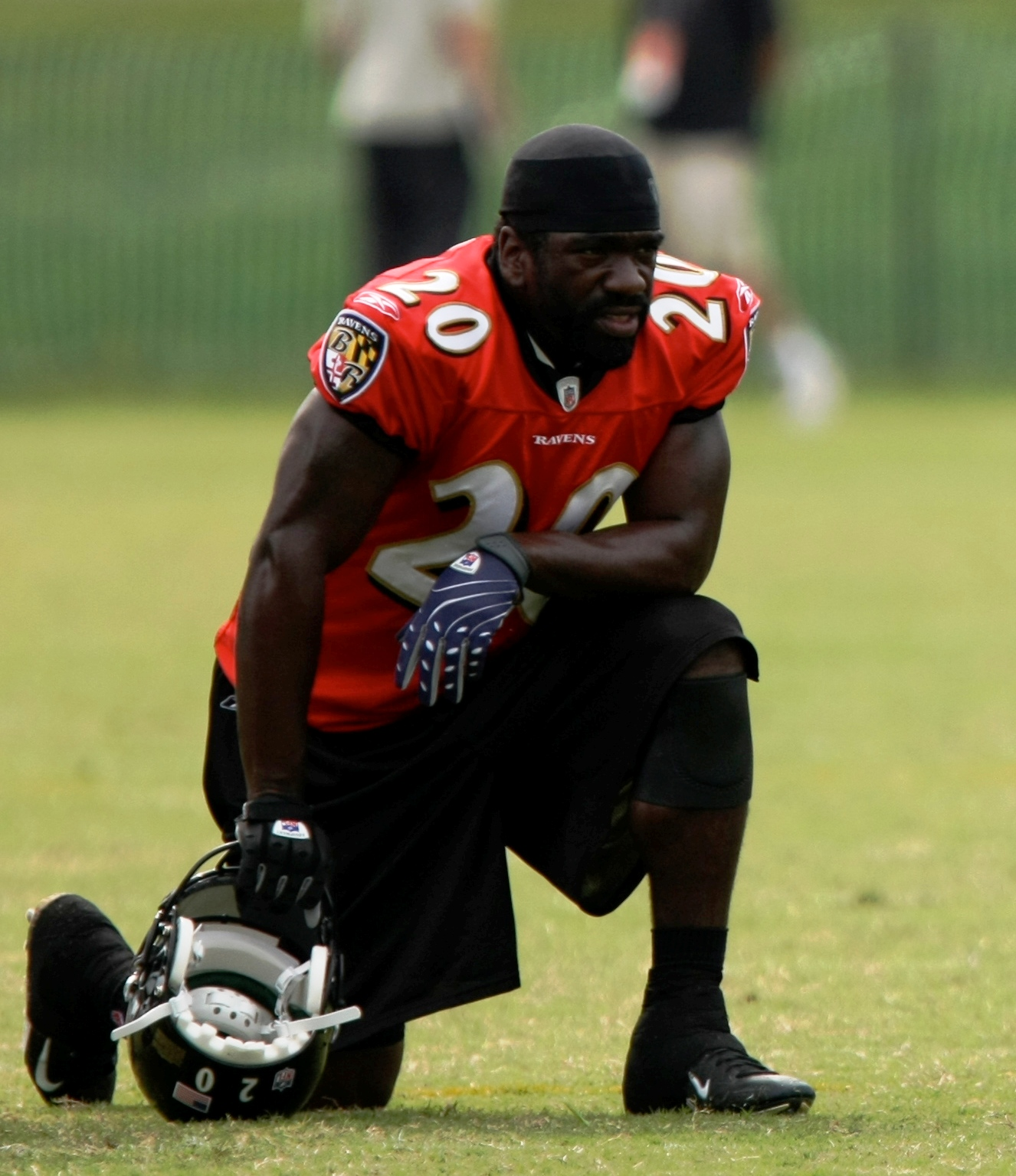 Ed Reed, American football player for the Baltimore Ravens